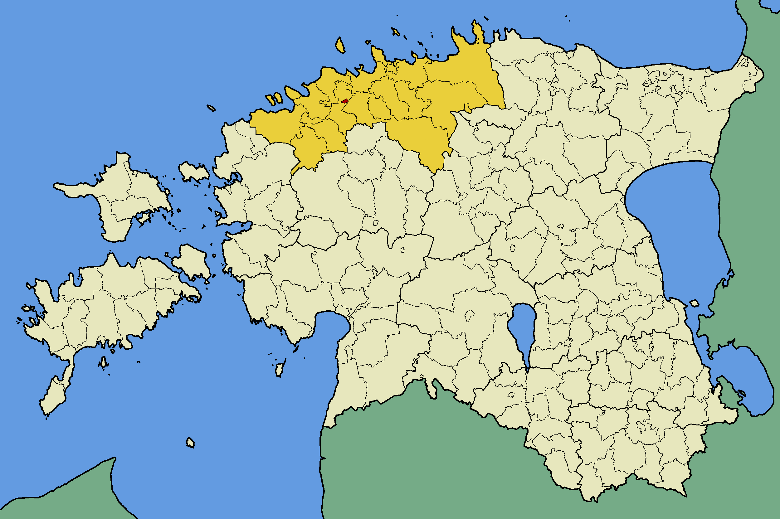 Map of Estonia with borders of municipalities (parishes). Harju county and Saue town municipality emphasized.